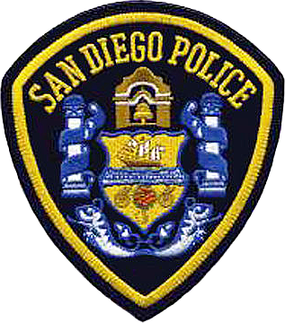 The official patch of the San Diego Police Department (SDPD). Designed in 1988, these patches were originally brown to match the tan uniforms of the time.